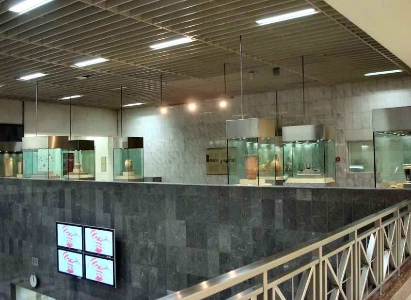 The Syntagma Metro Station Archaeological Collection.